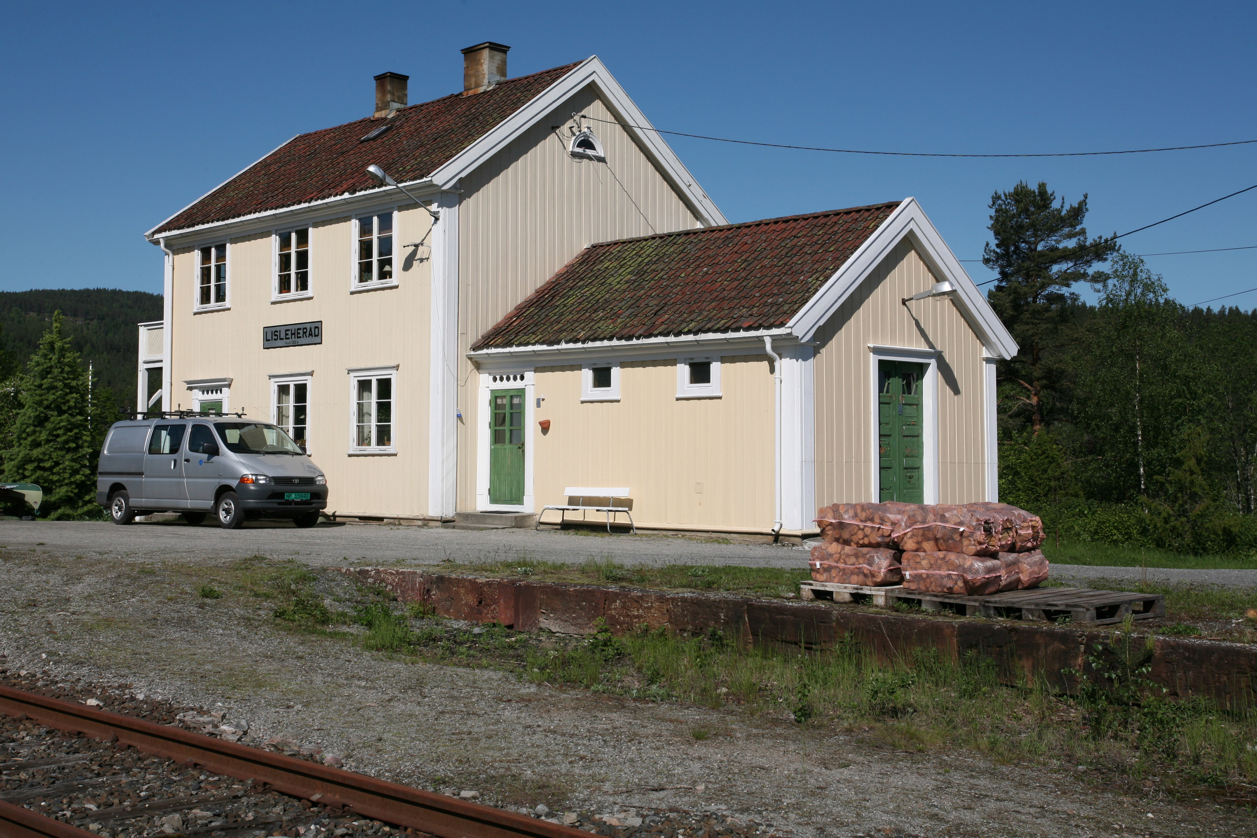 Picture of Lisleherad Railway Station (Norway)